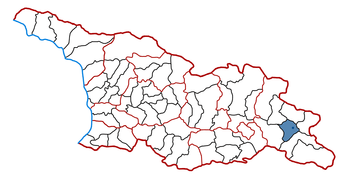 Location of Gurjaani district in Georgia